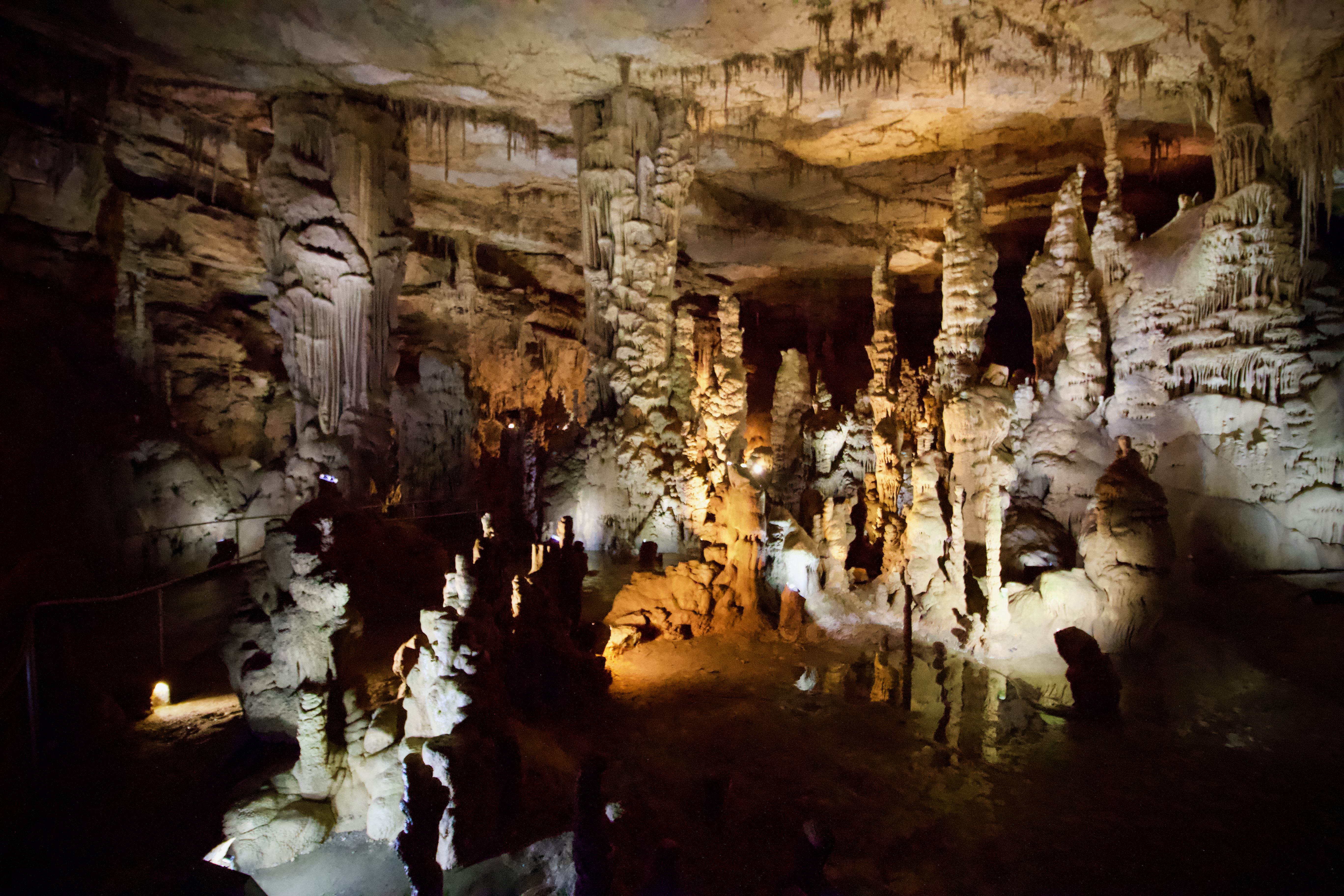 The inside of one cavern 2019